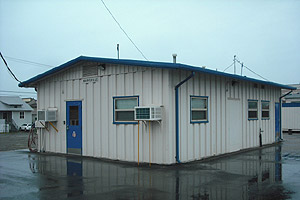 The former Marysville station, reused as a UP yard office, in November 2011